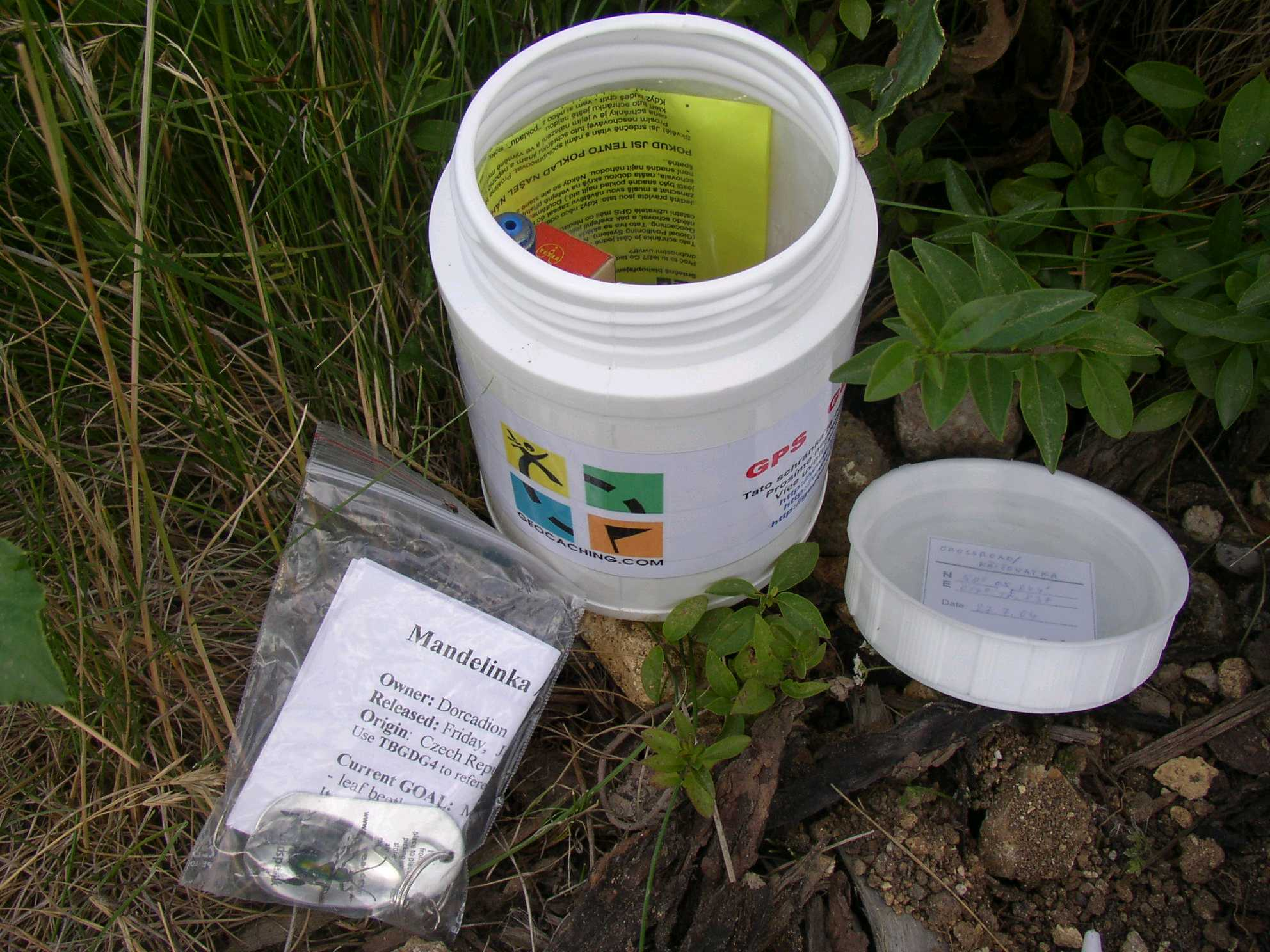 An example of container for geocaching game, Czech Republic.